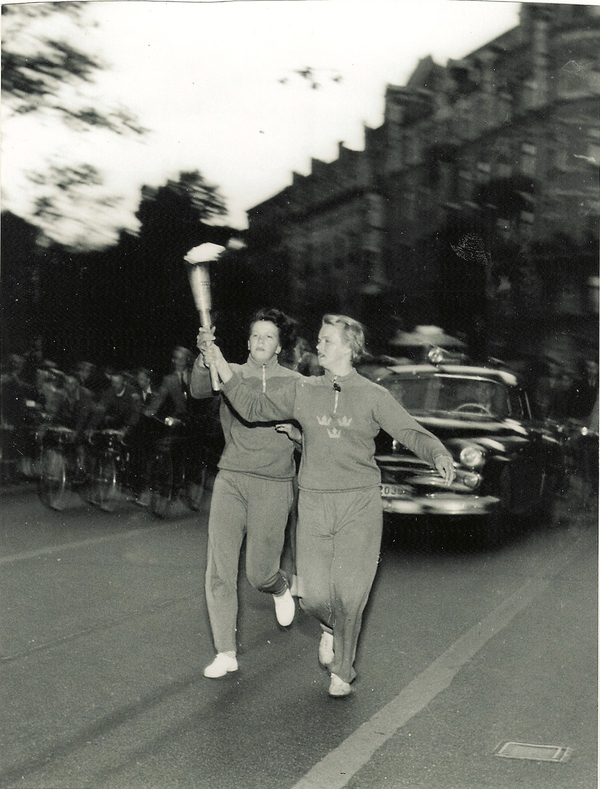 Ulla-Britt Eklund, till vänster, tar över den olympiska elden från klubbkamraten Ingegerd Fredin vid Nybroplan i Stockholm 1952.